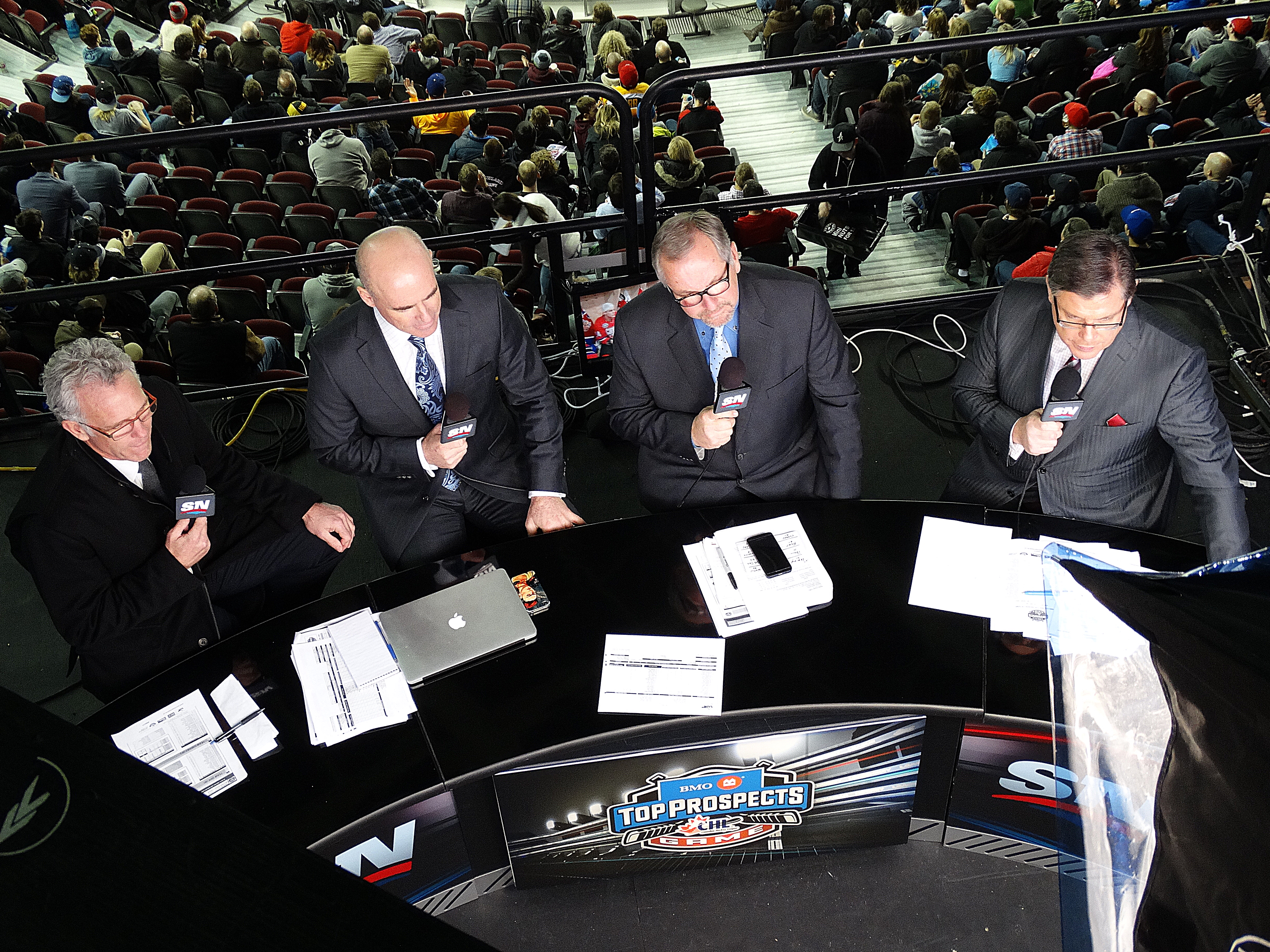 Sportsnet provided Canadian television coverage of 2014 CHL/NHL Top Prospects Game. Edmonton Oilers general manager Craig MacTavish (left) is interviewed between periods by analysts Damien Cox (2nd) and John Shannon (3rd), and host Rob Faulds (right). The CHL Top Prospects game at Scotiabank Saddledome on January 15, 2014 in Calgary, Alberta, Canada. Team Orr defeated Team Cherry 4-3.